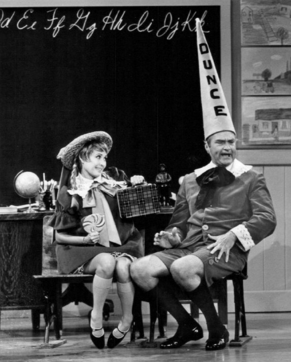 Photo from the television program The Red Skelton Show. In this skit, guest star Jane Powell plays the girlfriend of Skelton's "Junior" character.